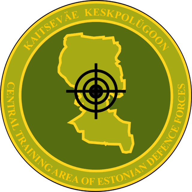 Emblem of the Central Training Area of the Estonian Defence Forces